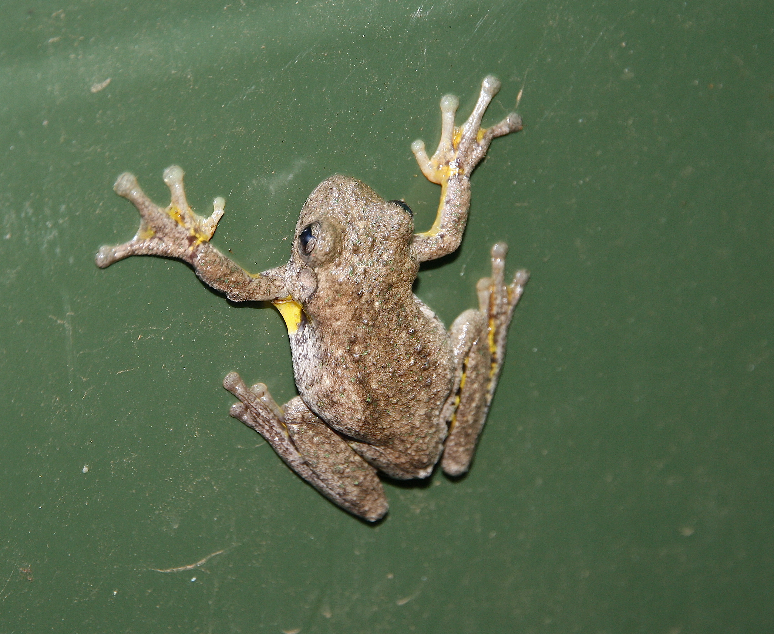 Litoria jervisiensis, Jervis Bay Tree Frog